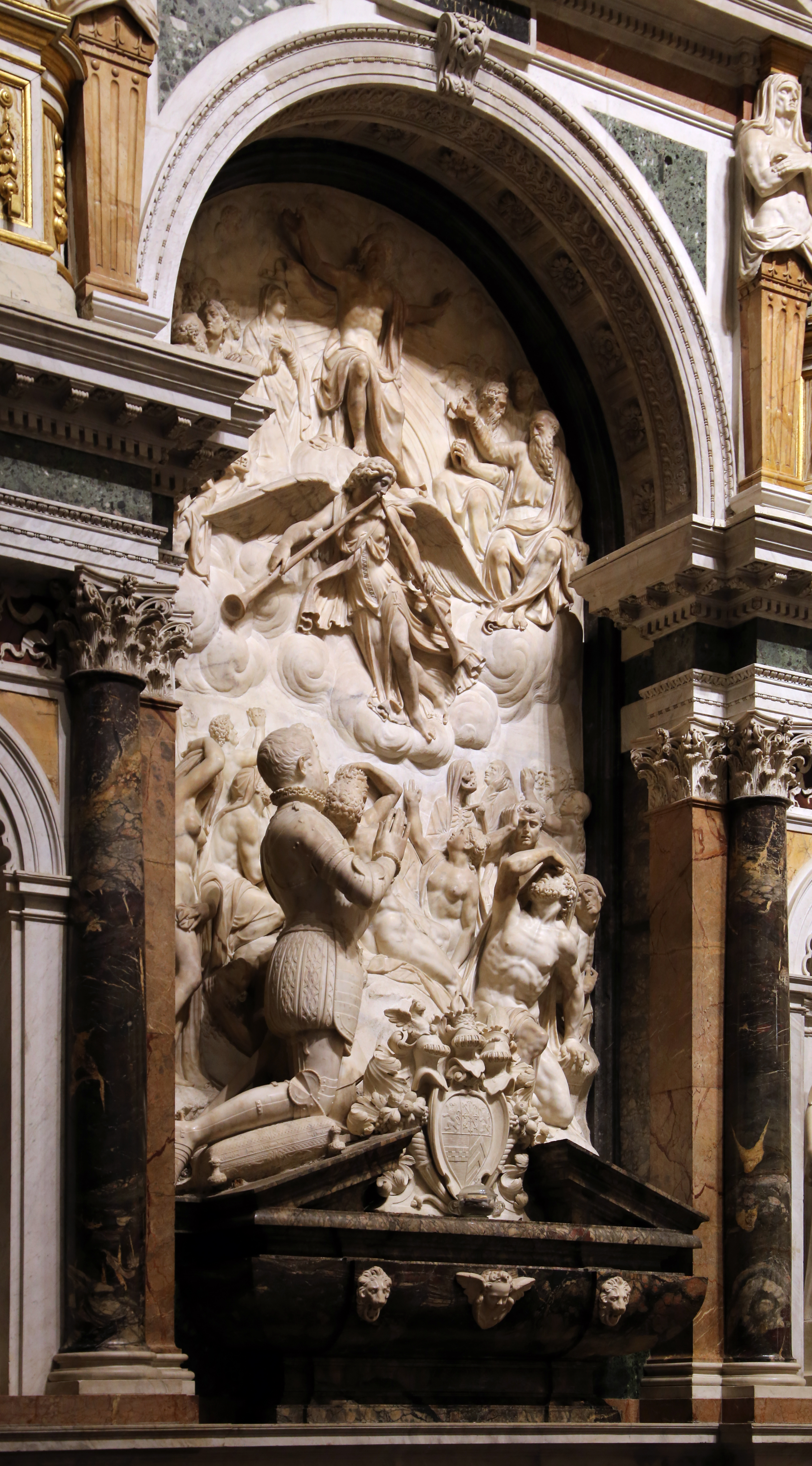 Santa Maria dell'Anima (Rome) - Interior